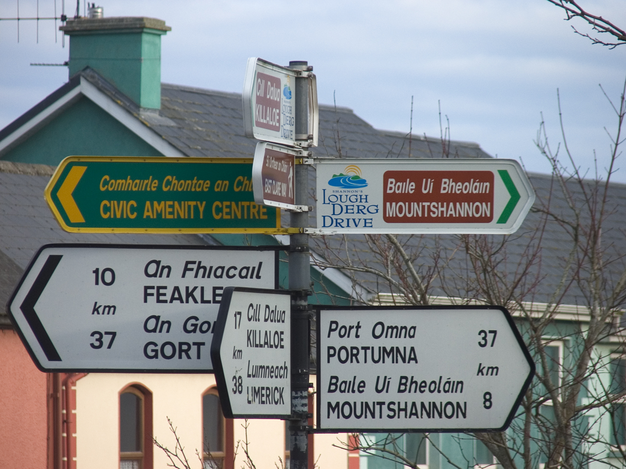 Sign in Scariff, Co Clare. A little exercise for the ore to gold group. Taken with a Fujifilm FinePix S5500.